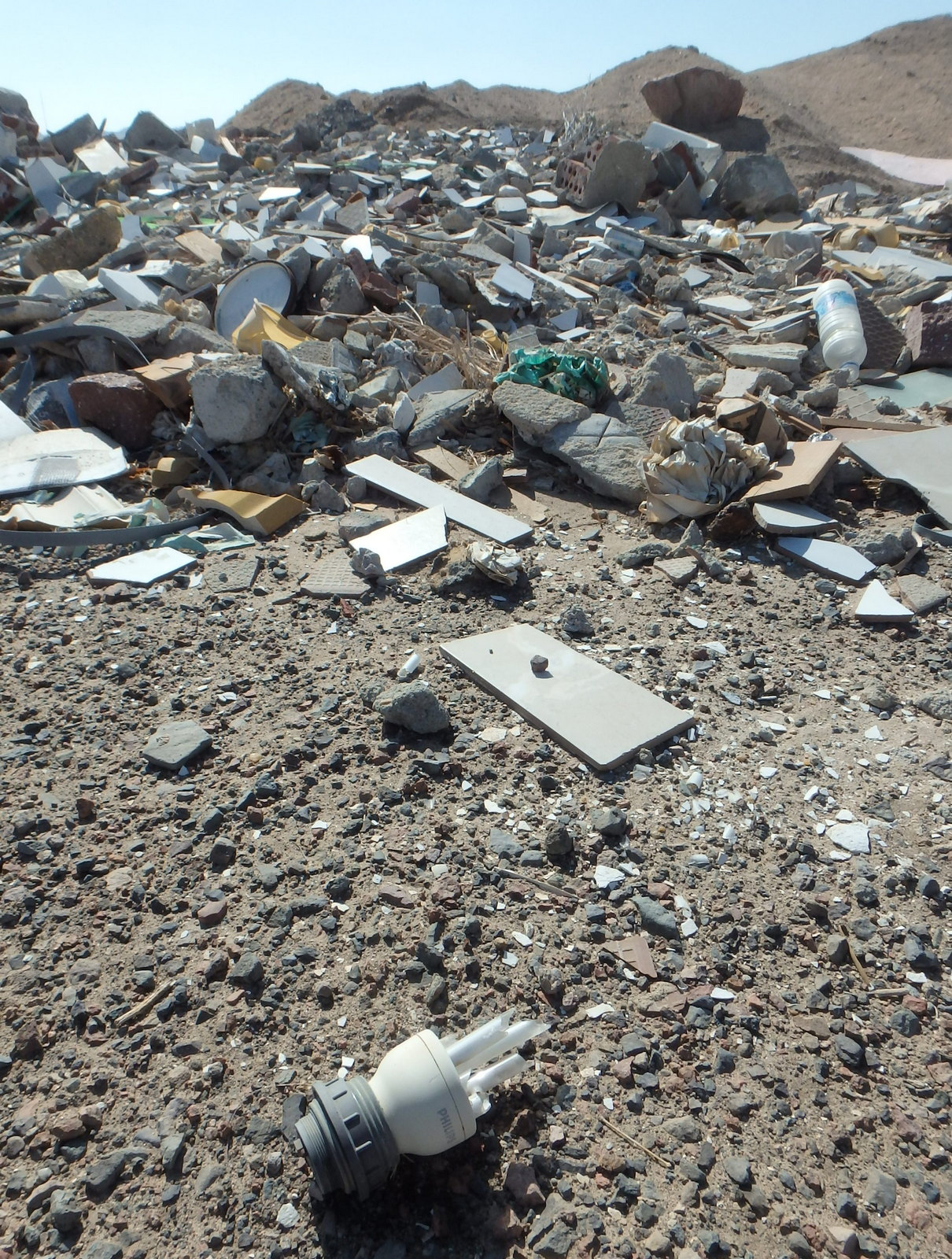 Compact fluorescent lamp on a illegal dumping site in Hurghada, Egypt.